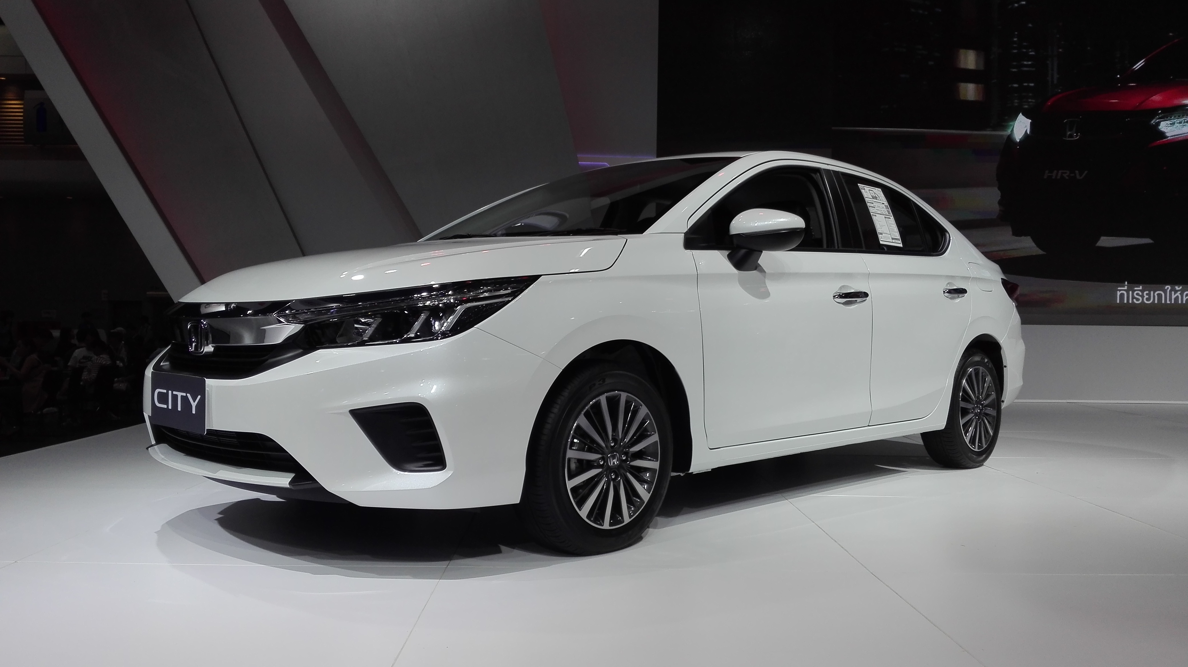 The All-New 2020 Honda City SV at Thailand International Motor Expo 2019.